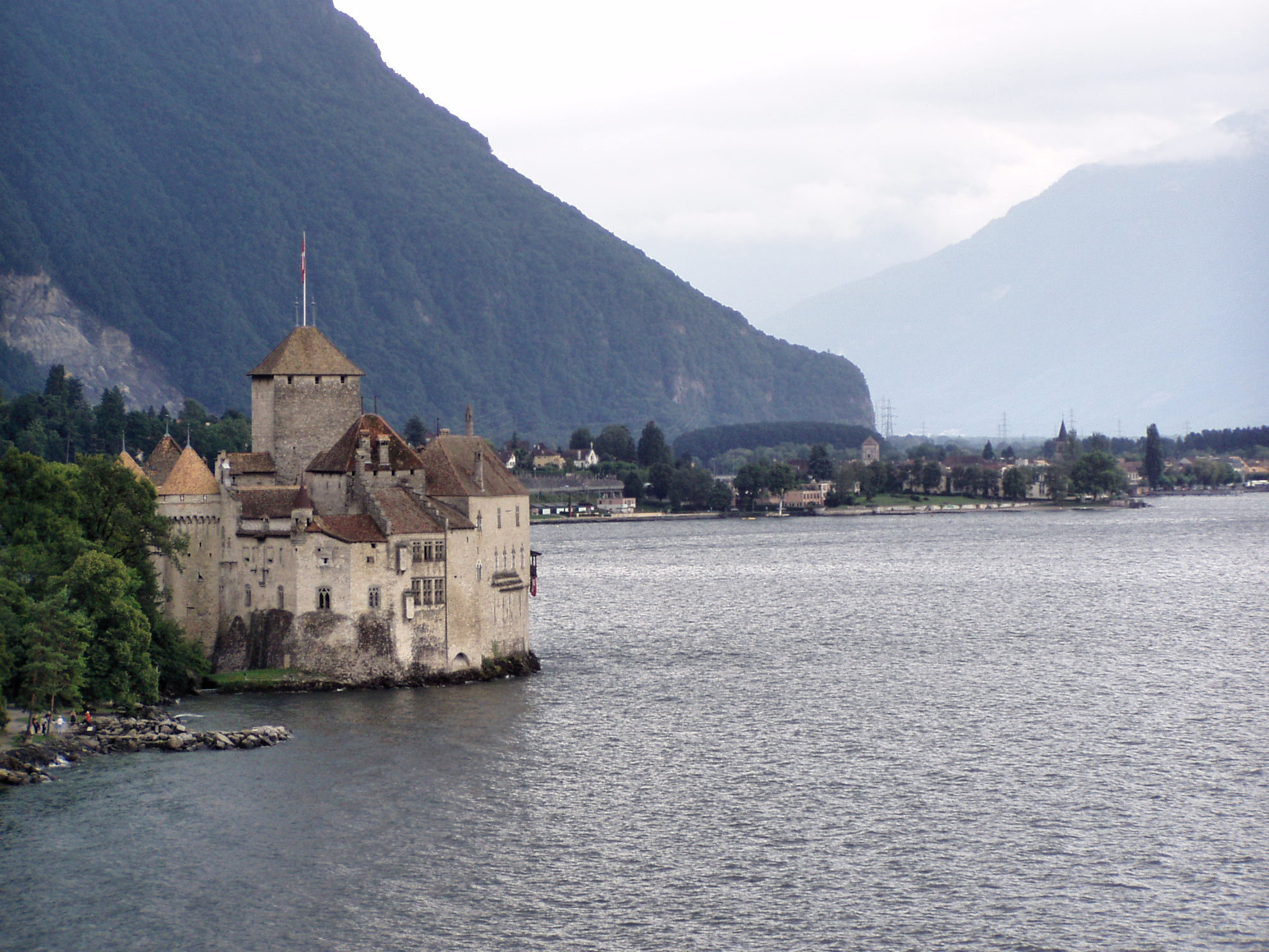 Château de Chillon, Switzerland.